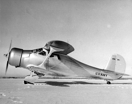 Beechcraft GB-1 Traveler, U.S. Navy version of the Model 17 Staggerwing